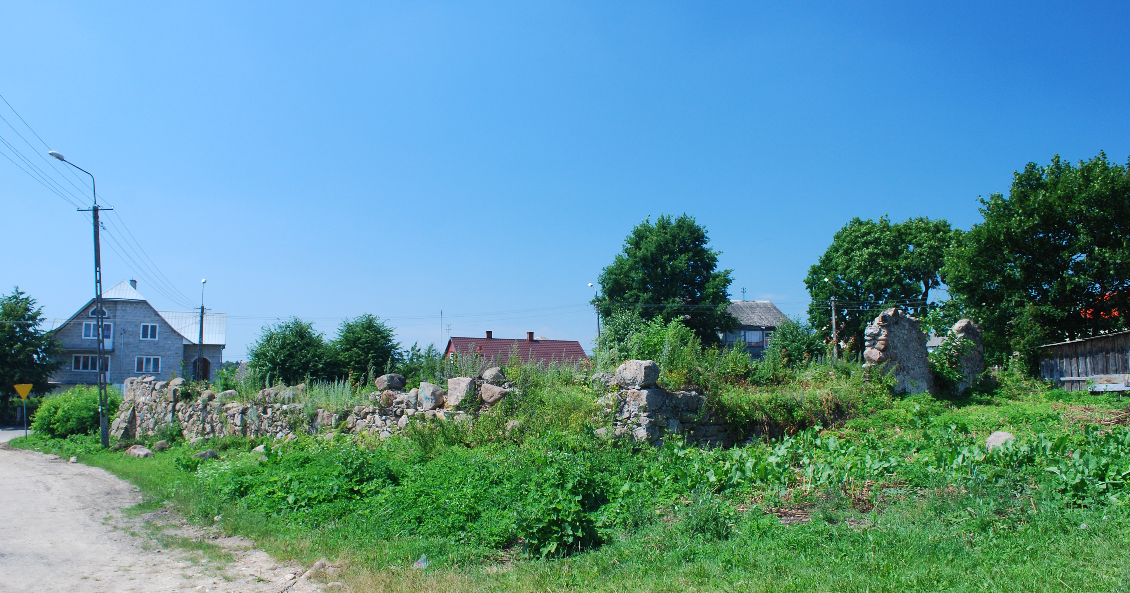 This photo from Podlaskie Voievodeship was taken during Polish Wikiexpedition 2009 set up by Wikimedia Polska Association. The making of this document was supported by Wikimedia Polska. Ruiny Wielkiej Synagogi w Krynkach